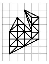 elementry triangles